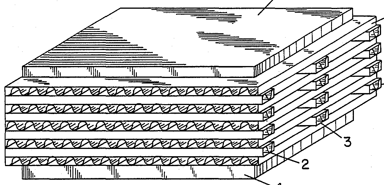 Drawing showing use of corrugated plastic in welded hollow plastic plate air-to-air heat exchangers.